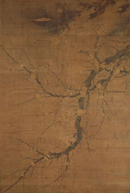 Pine and Plum, Daisenji, Kofu, Yamanashi, Japan